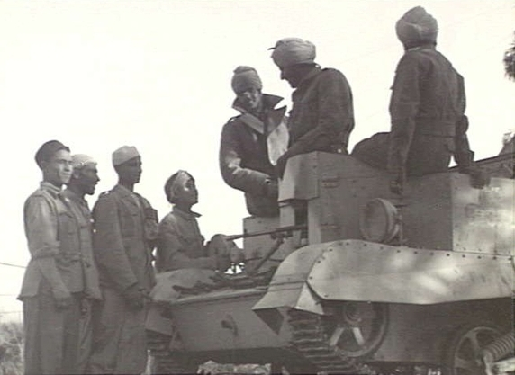 Derna, Libya. 1941-12. The crew of an Indian Bren carrier chat with locals.